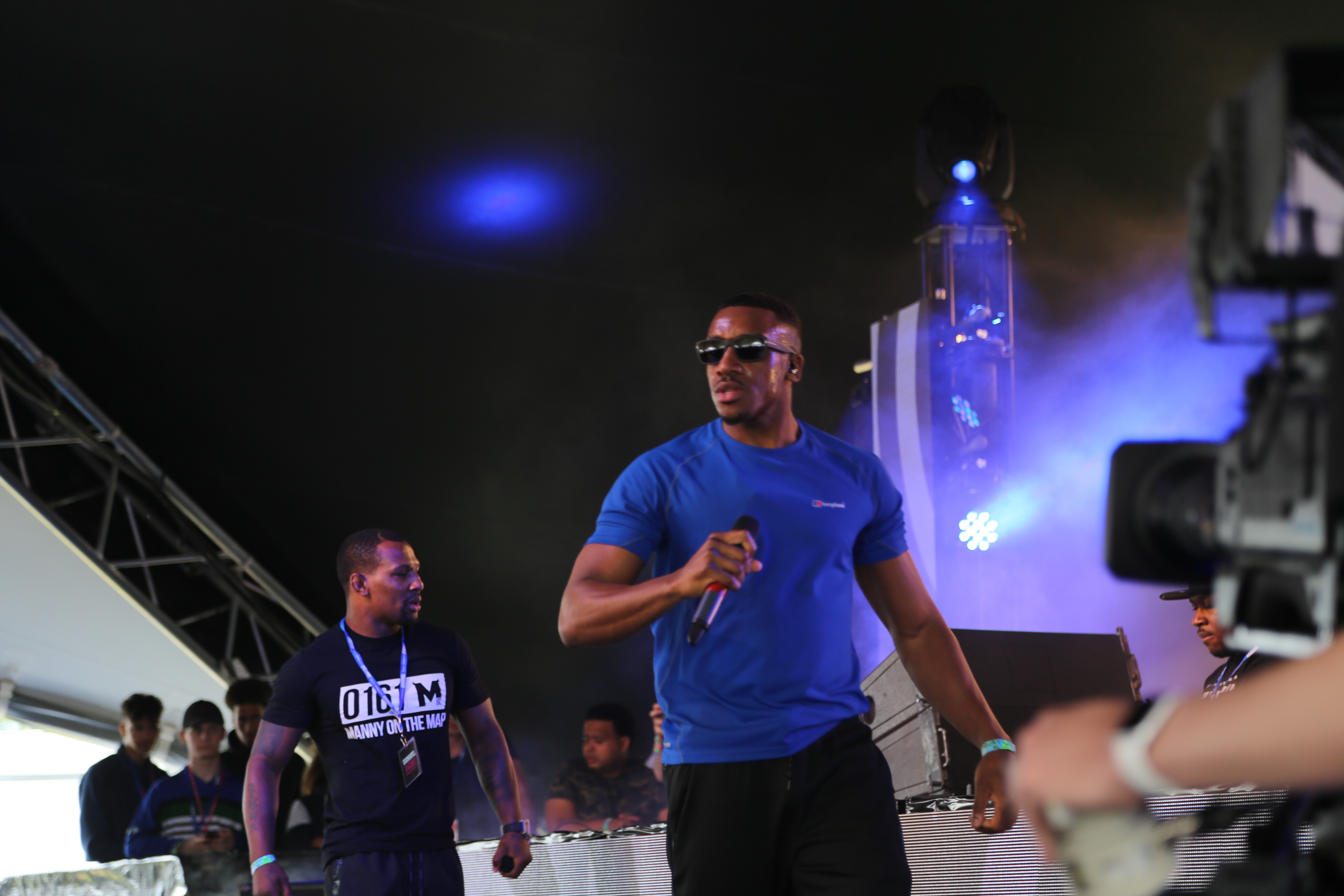 Bugzy Malone Silver Hayes